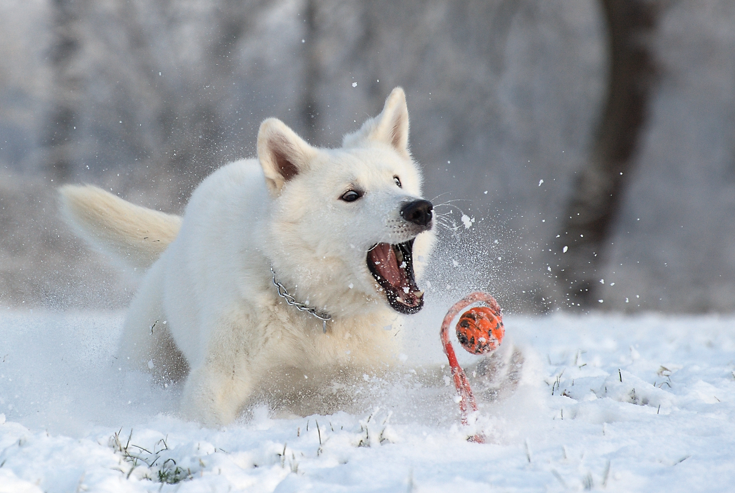 Berger Blanc Suisse